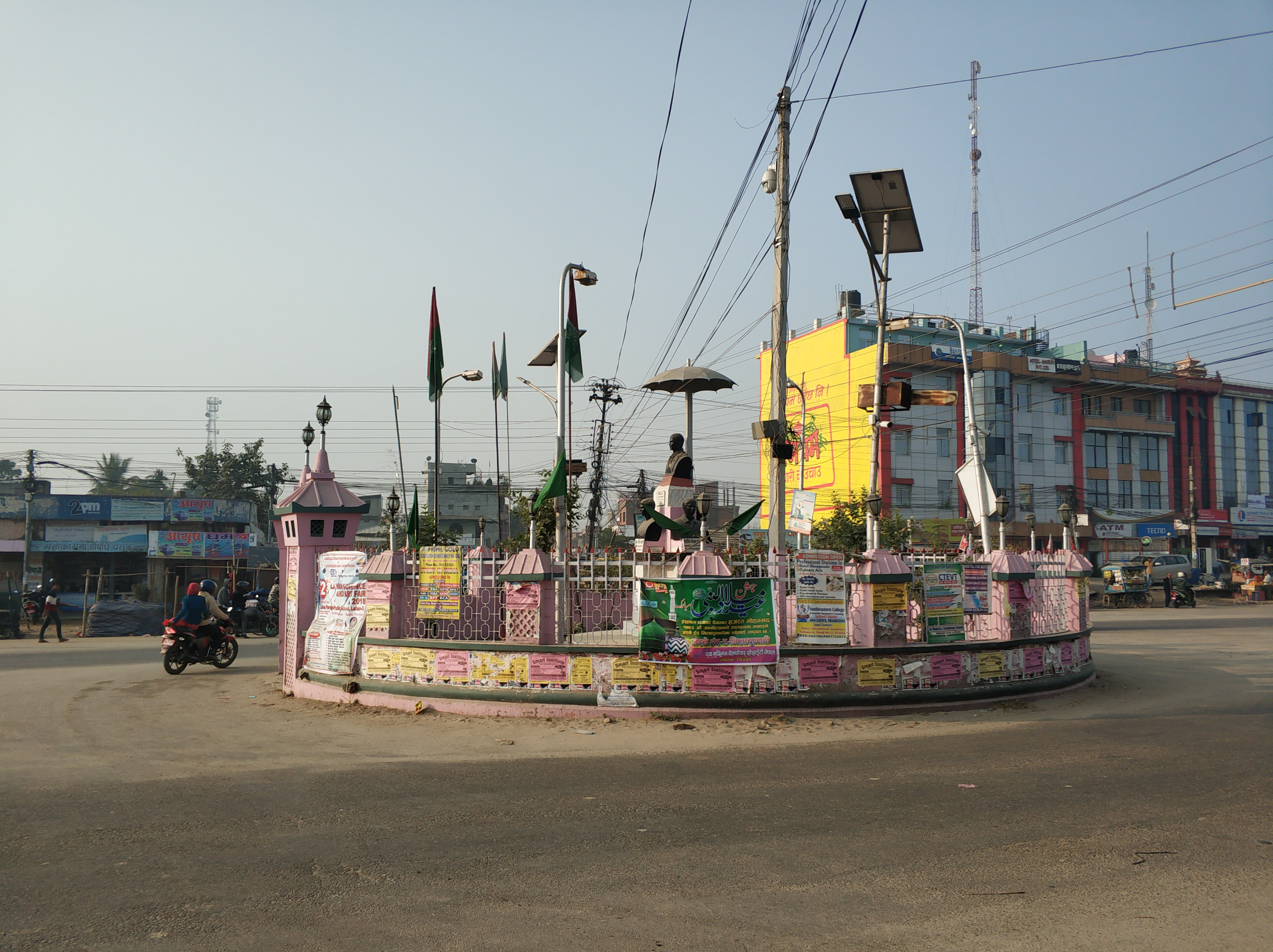 Ghol Chowk at Lahan city